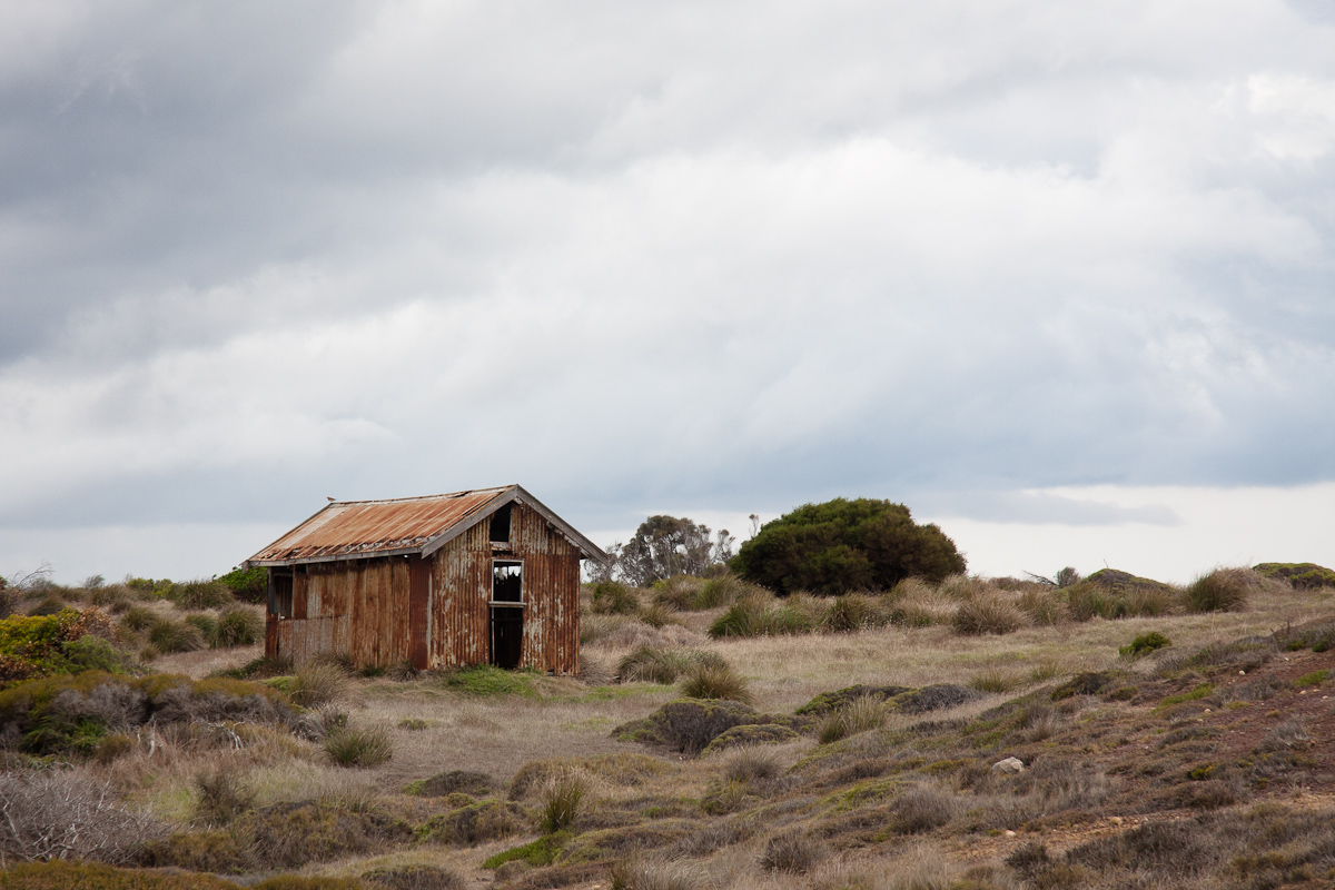 Old shack